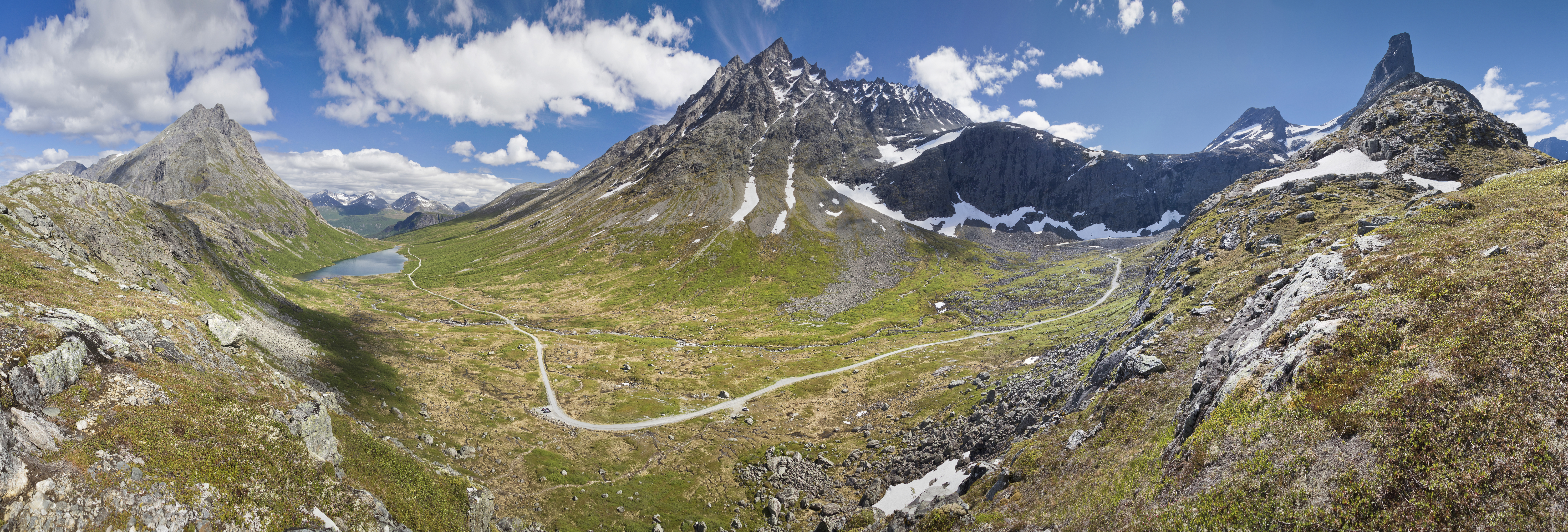 A wide view to Vengedalen as seen from Litlefjellet in Møre og Romsdal, Norway in 2013 June. The mountain massif in the middle is Vengetindene. At 1,852 meters above the sea level Store Vengetinden is one of the highest summits in the surrounding area.